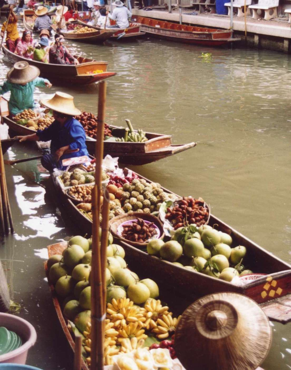 Floating market of Damoen Saduk, Ratchaburi province, Thailand. Photo taken by User:Ahoerstemeier on July 13, 2003.